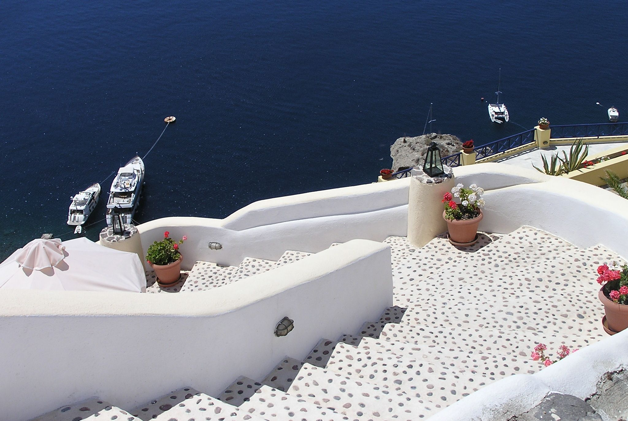 Stairs in Oia, Santorini